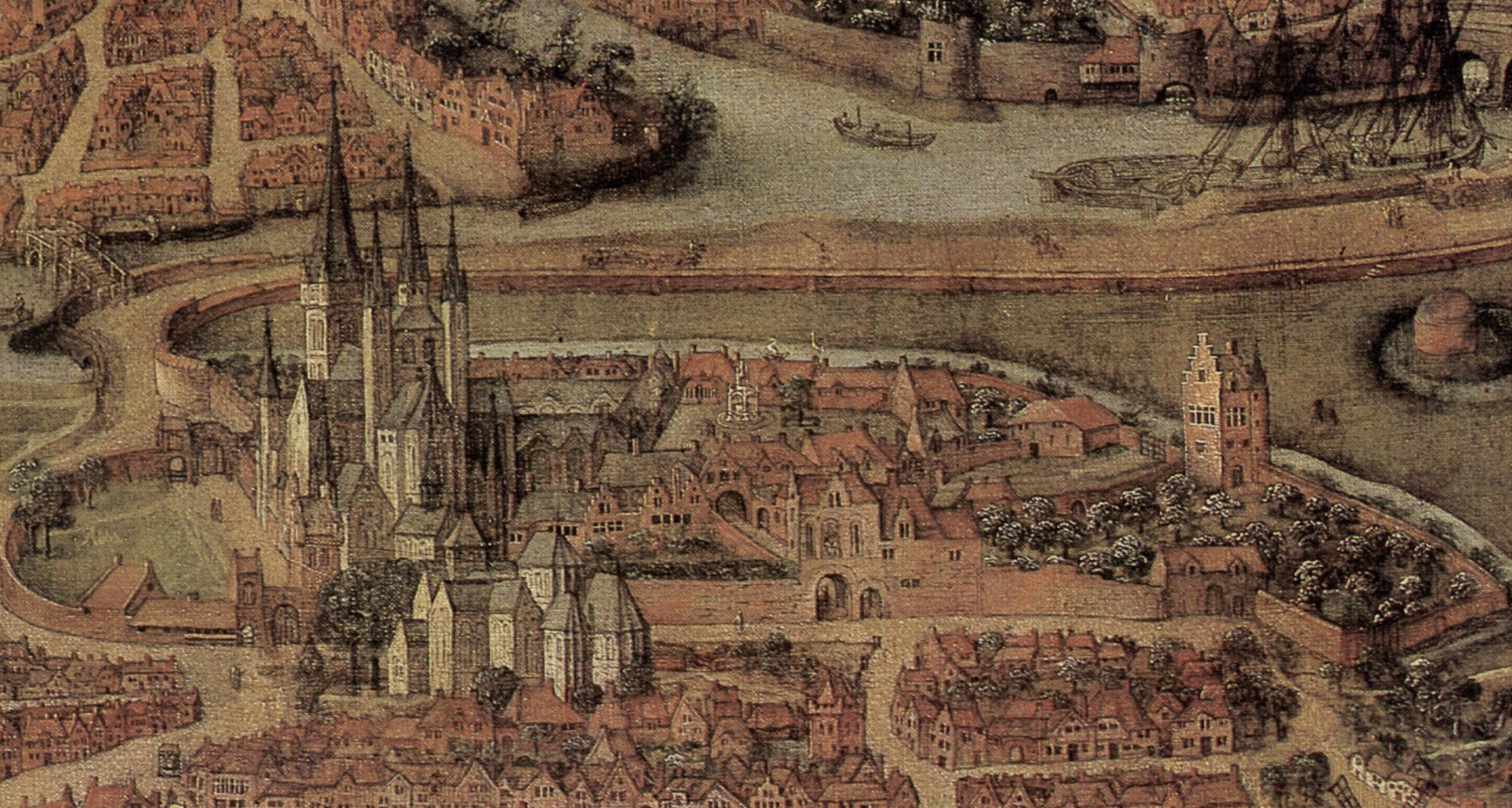 Sint-Baafsabdij_Gent,_uitsnede_uit_kaart_van_Gent,_1534.jpg